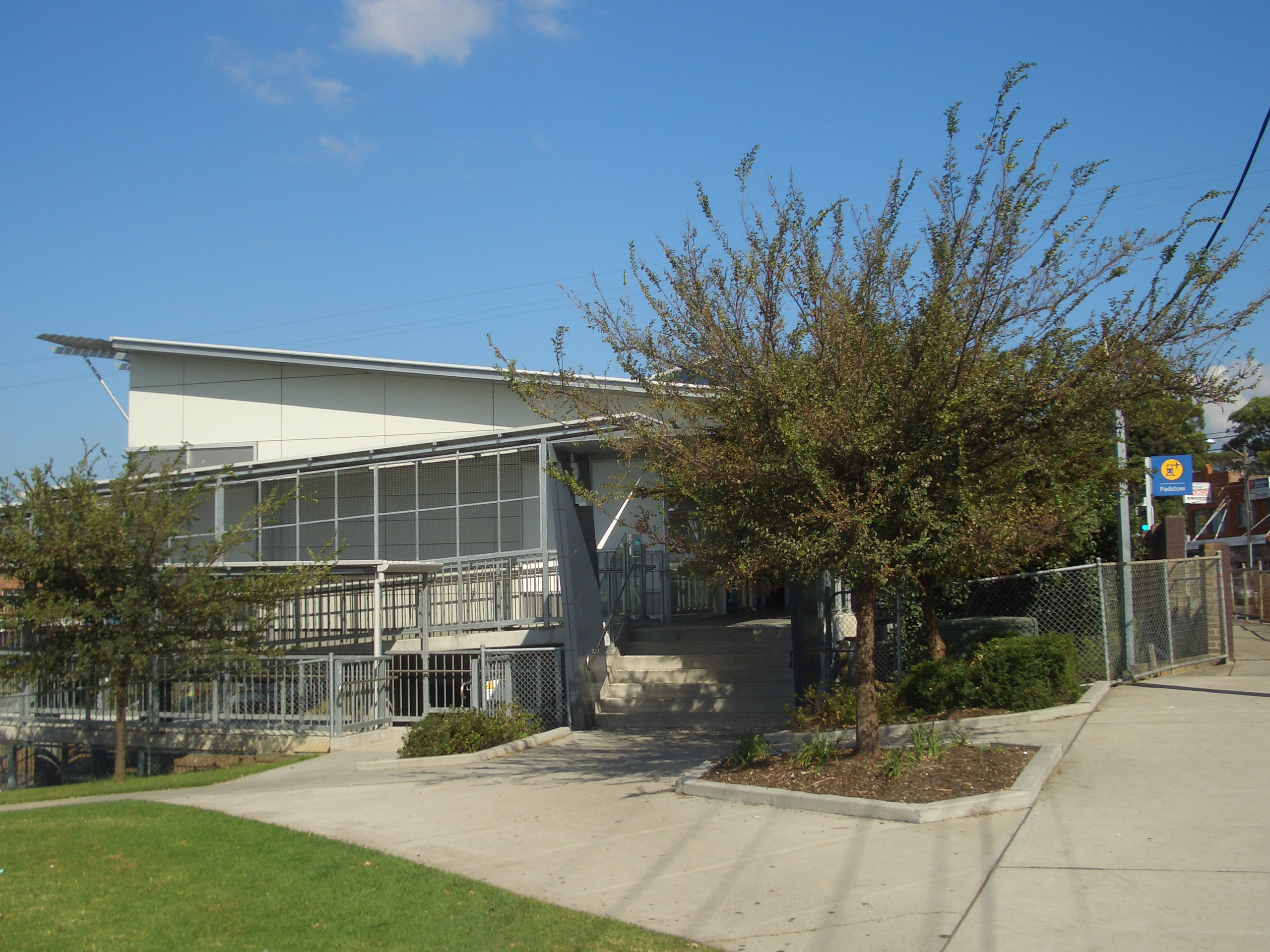 Padstow_Railway_Station